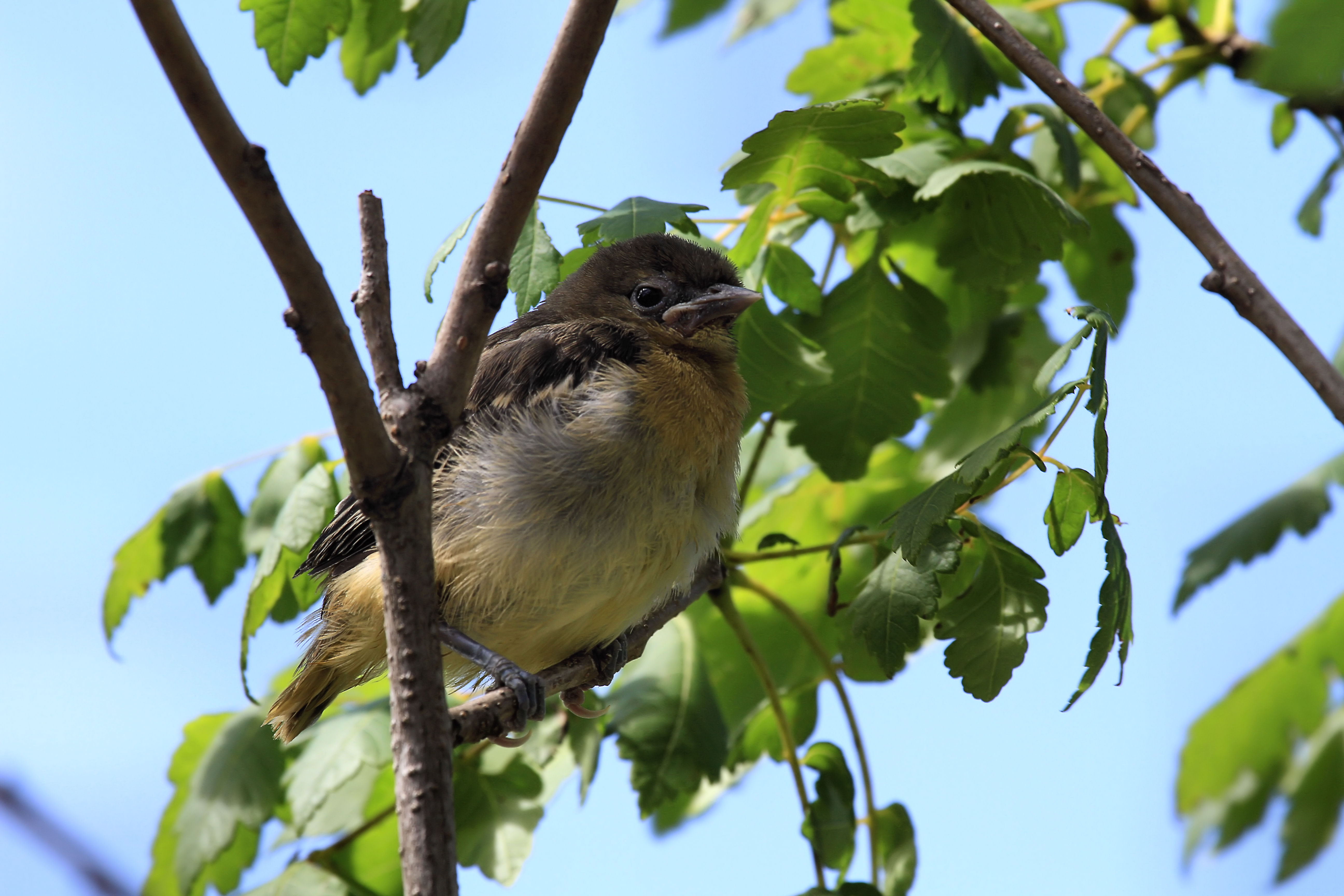 A juvenile Baltimore Oriole in the grounds of Maryland Zoo, Baltimore, Maryland, USA.